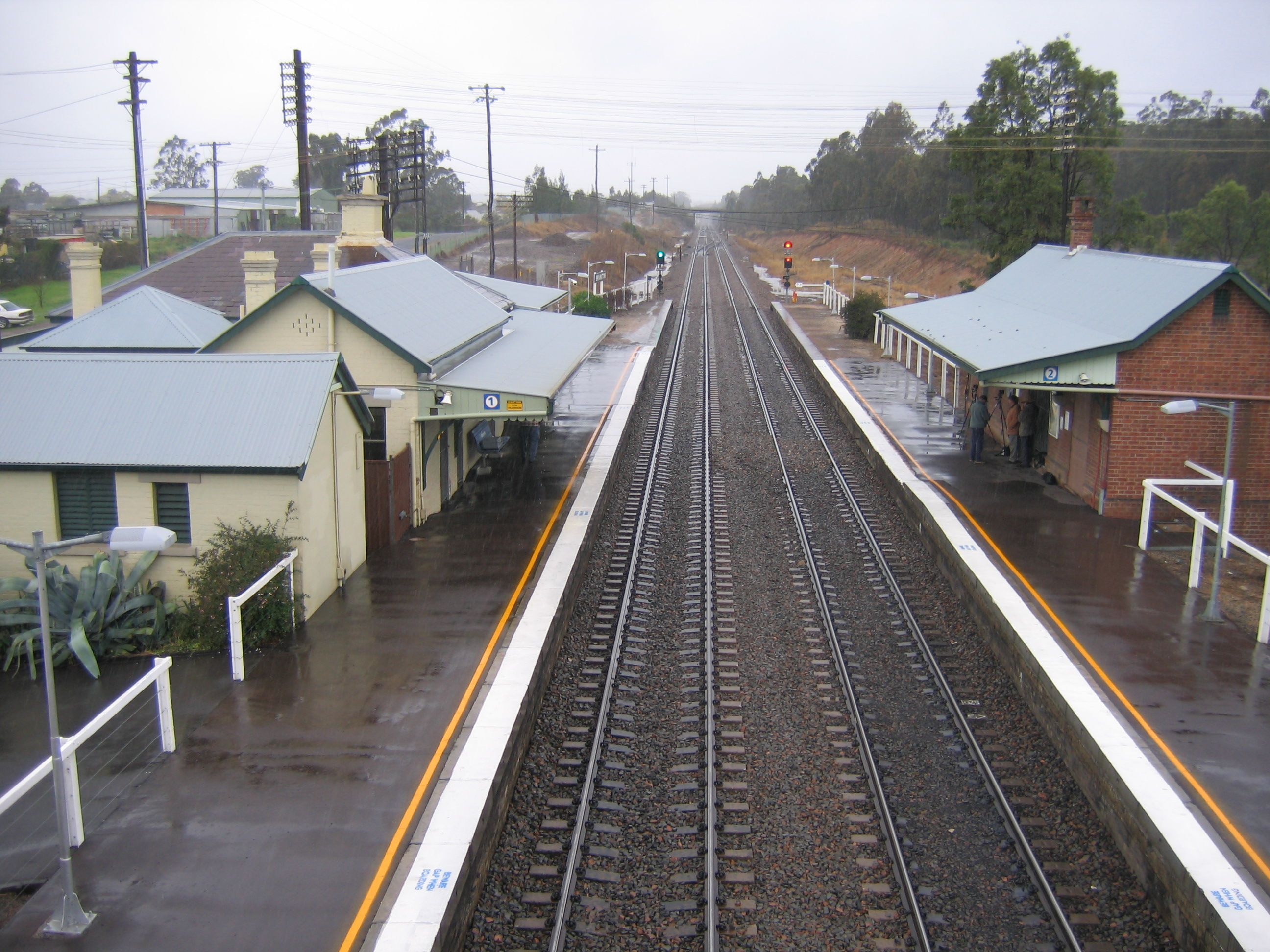 Branxton railway station viewed from bridge between platforms